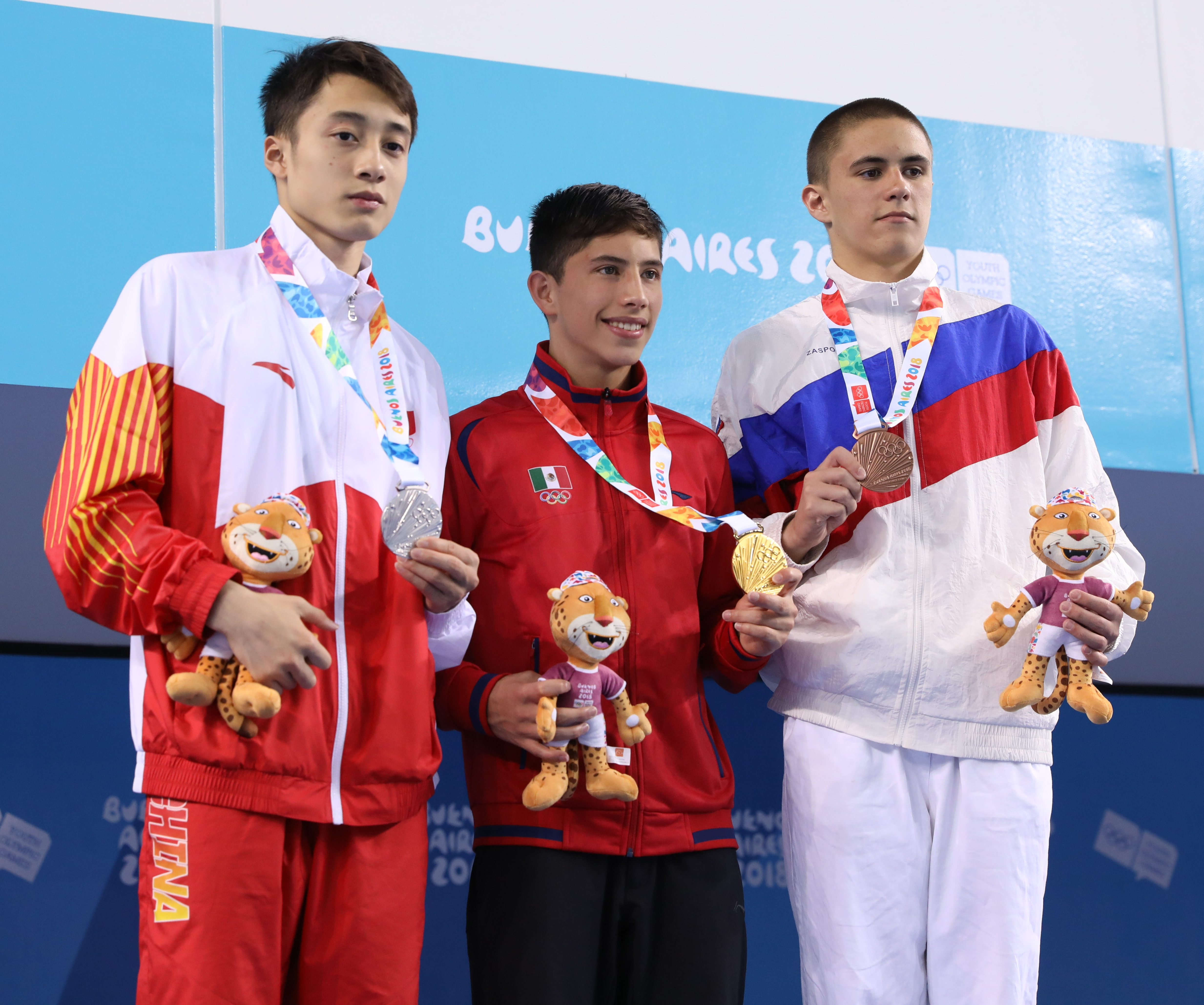 Boys' Diving, 10 m platform, Final: Victory ceremony